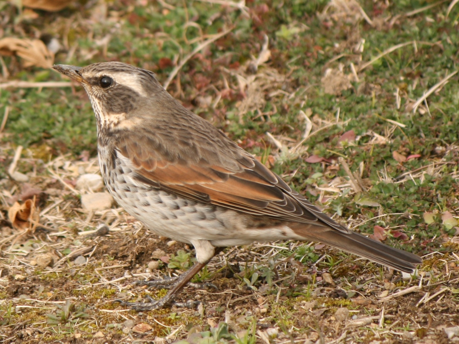 Dusky Thrush Turdus naumanni eunomus in Japan